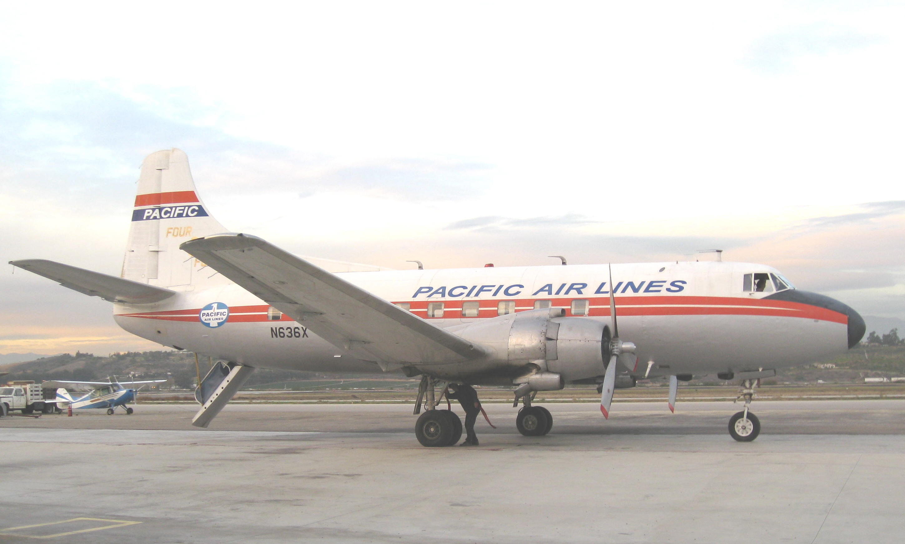 Martin 404 in colours of Pacific Air Lines at Camarillo, California